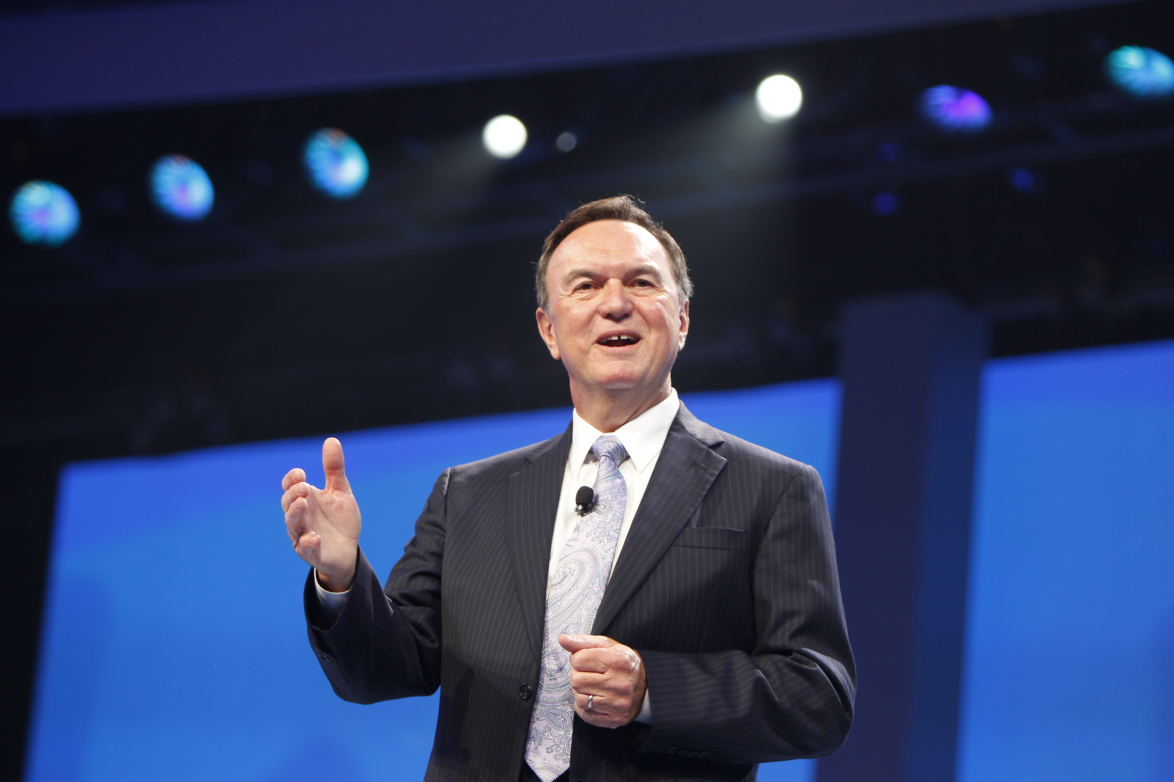 Mike Duke, the president and CEO of Wal-Mart Stores, Inc., addresses the crowd at the 2011 Walmart Shareholders Meeting held at the Walton Arena in Fayetteville, Arkansas. He shares tips on how to succeed at being the best retailer, which are the following: grow the Walmart business, focus on everyday low costs, global ecommerce, talent, live better, and devotion to the Walmart mission. To watch the replay of the event, view videos, and join the conversation, visit